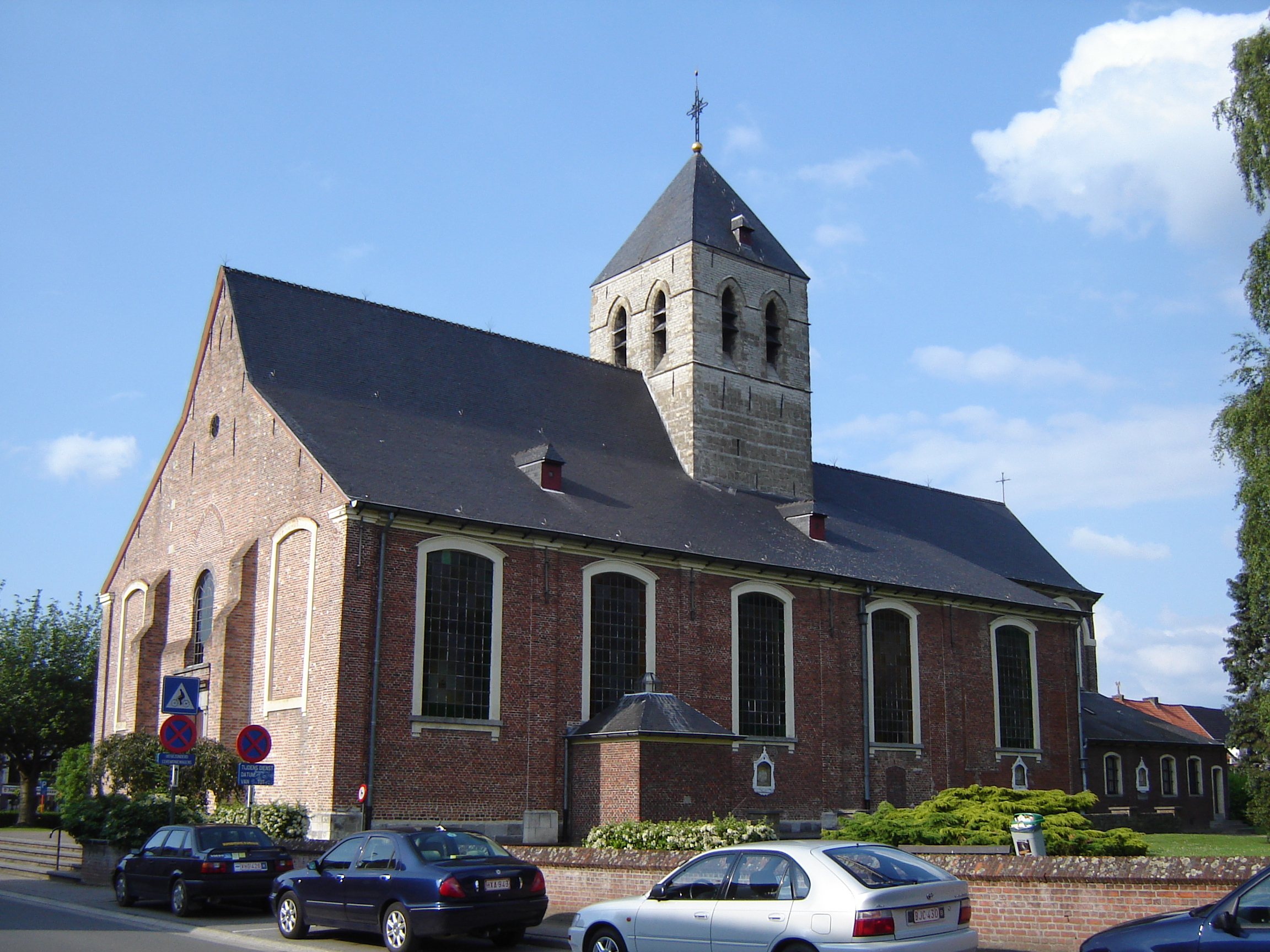 Church of Saint-Nicholas in Lochristi. Lochristi, East Flanders, Belgium